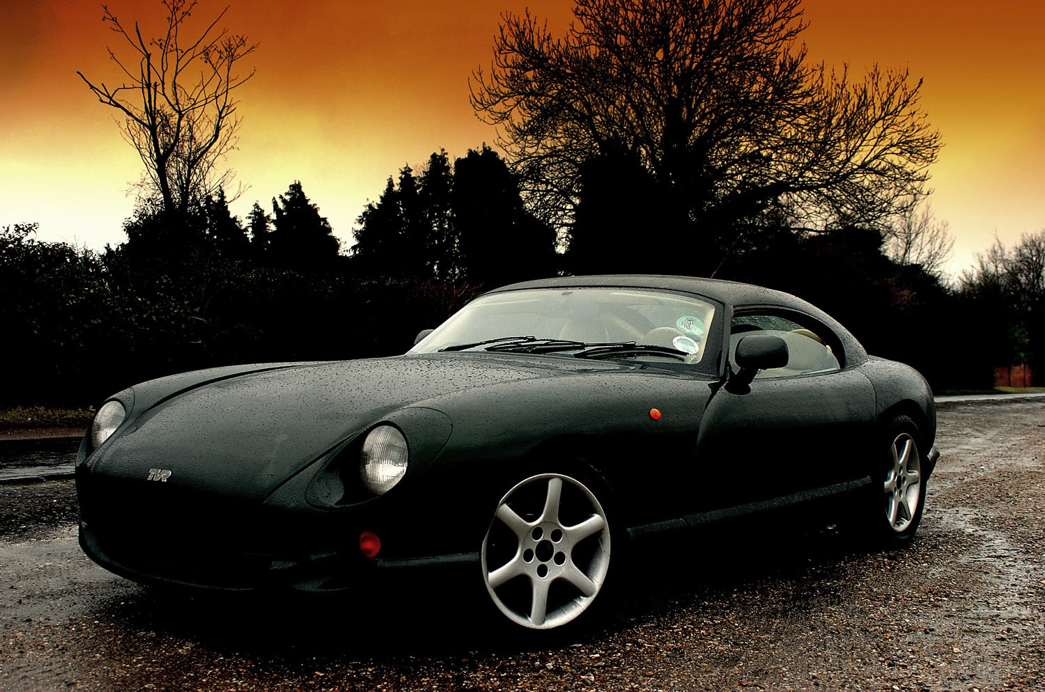 TVR Cerbera